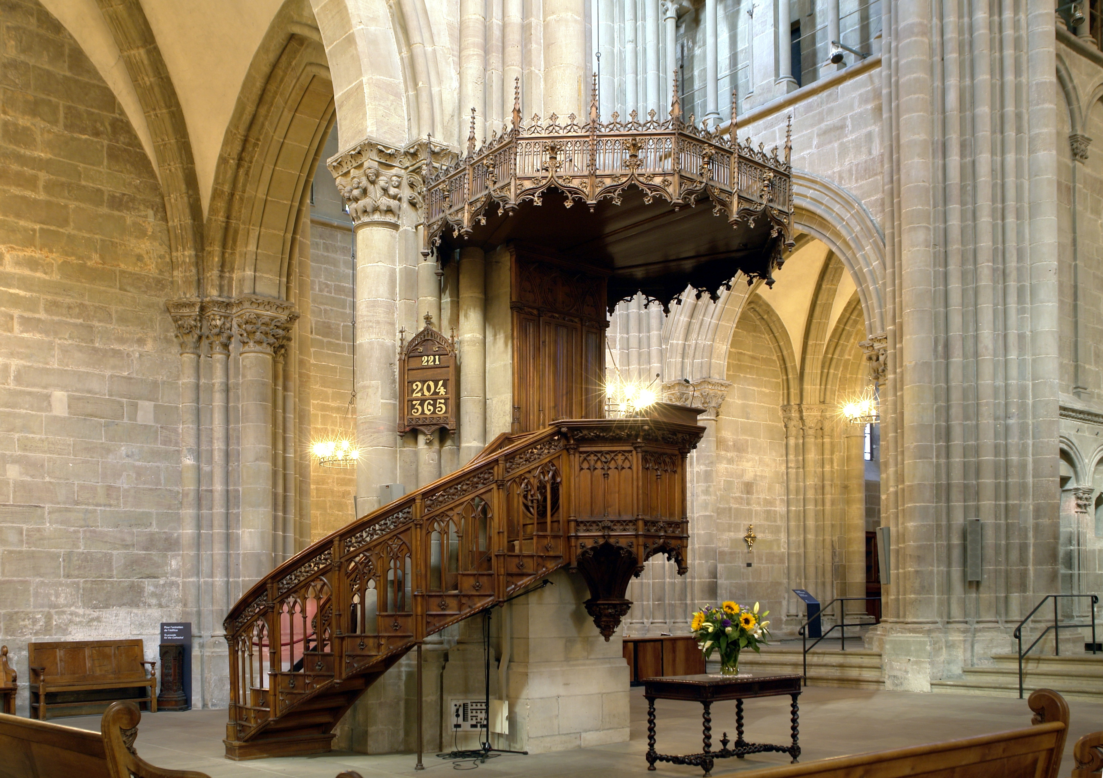 Pulpit of Saint-Pierre cathedral, Geneva, Switzerland.